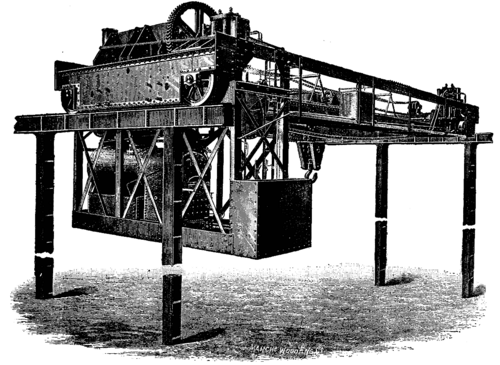 An illustration accompanying an article in Scientific American describing a steam-powered overhead crane manufactured by Thomas Smith of Rodley, West Yorkshire